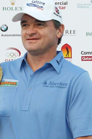 Scotland's Paul Lawrie poses with the Commercialbank Qatar Masters title.